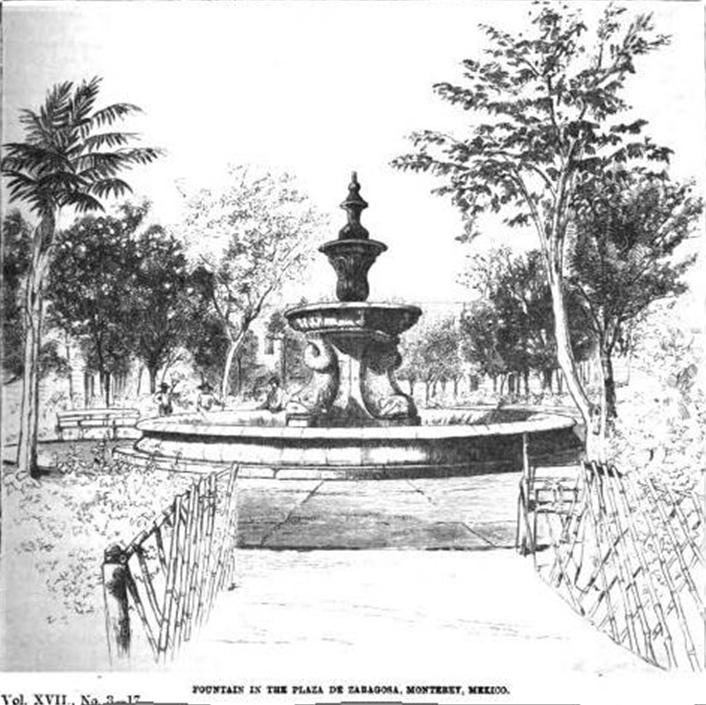 From the American Magazine: Frank Leslie's Popular Monthly. Article MONTEREY—THE METROPOLIS OF NORTHERN MEXICO By FANNIE B. Ward 1884 Shows the marble fountain in the middle of the Zaragoza public Square. Monterrey, Mexico 1884